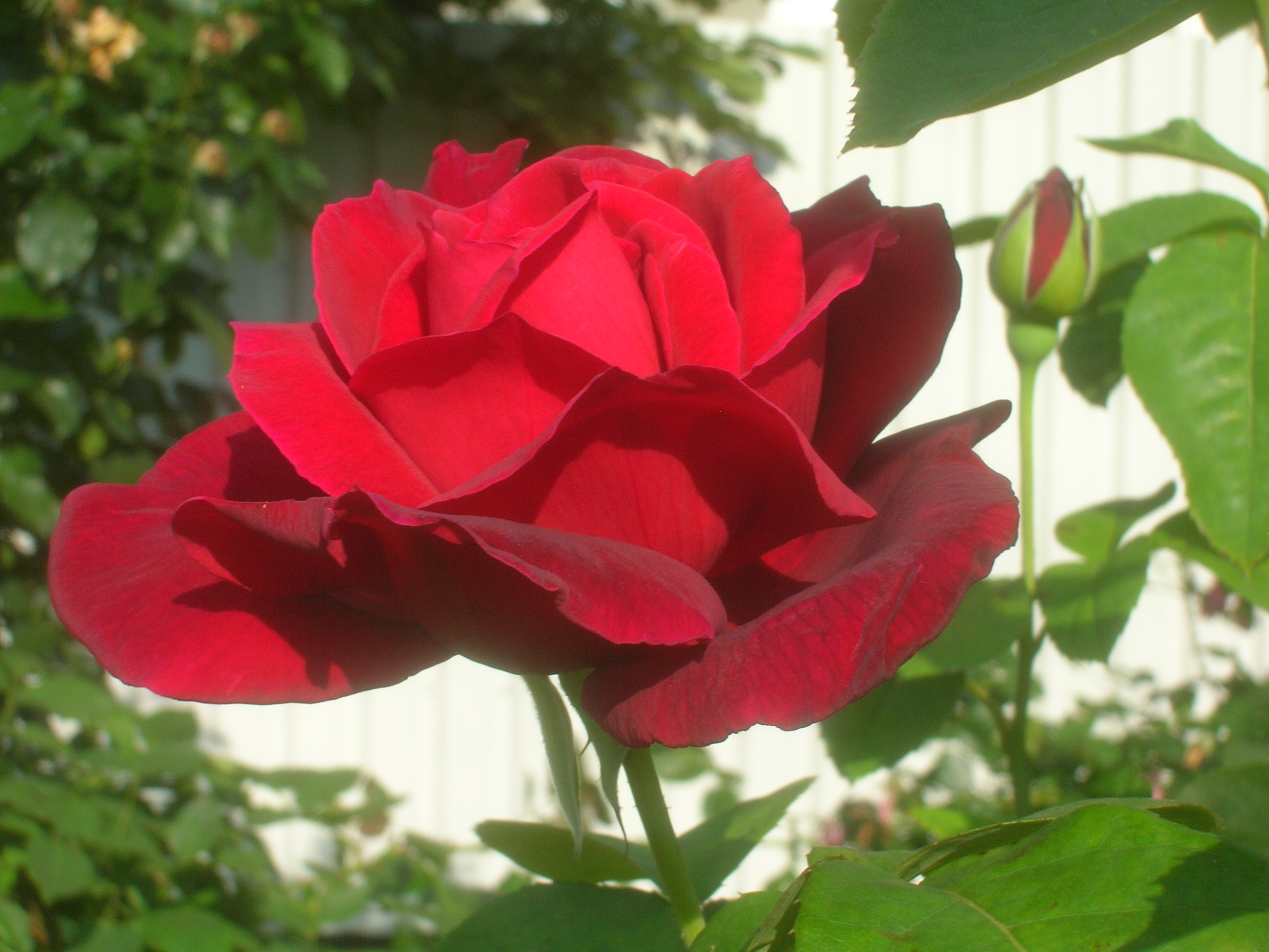 Rosa 'Chrysler Imperial' in the Volksgarten in Vienna. Identified by sign.